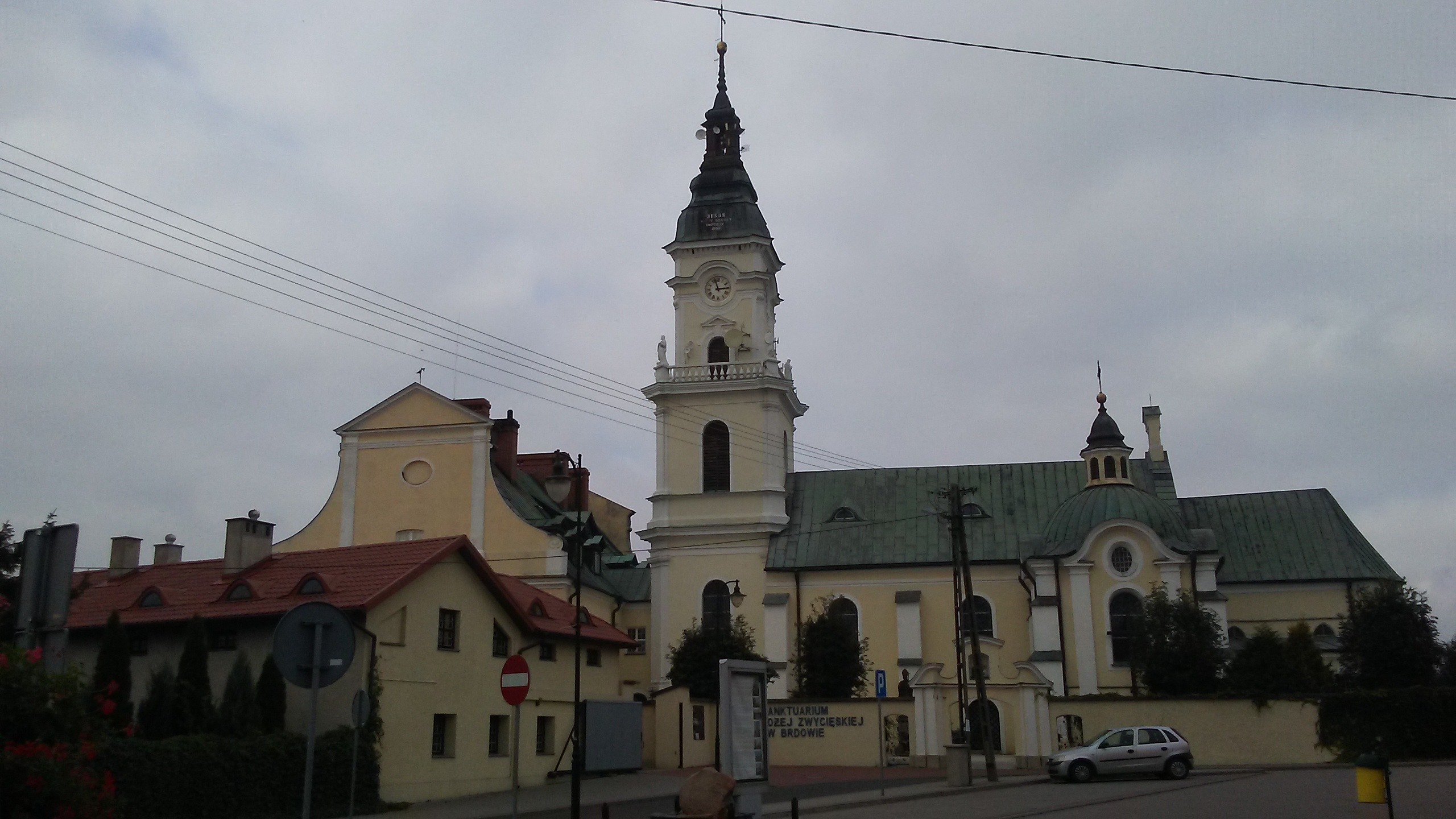 St Adalbert's church in Brdów, Poland